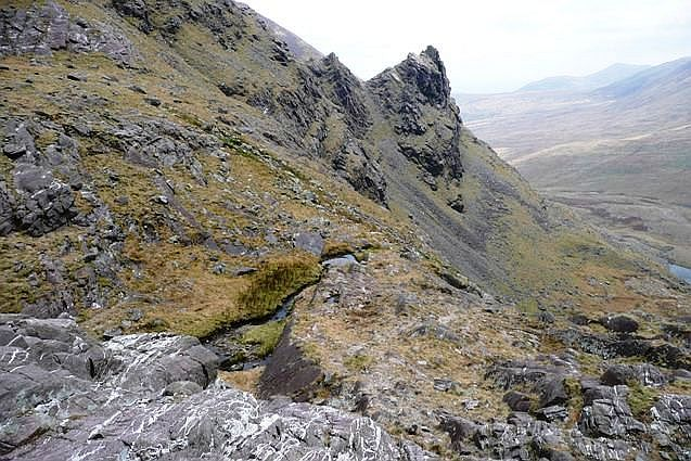 Behind Hags Teeth From the top of the first scramble, looking back to the rock formation known at Hags Teeth with the Garragh River valley below.